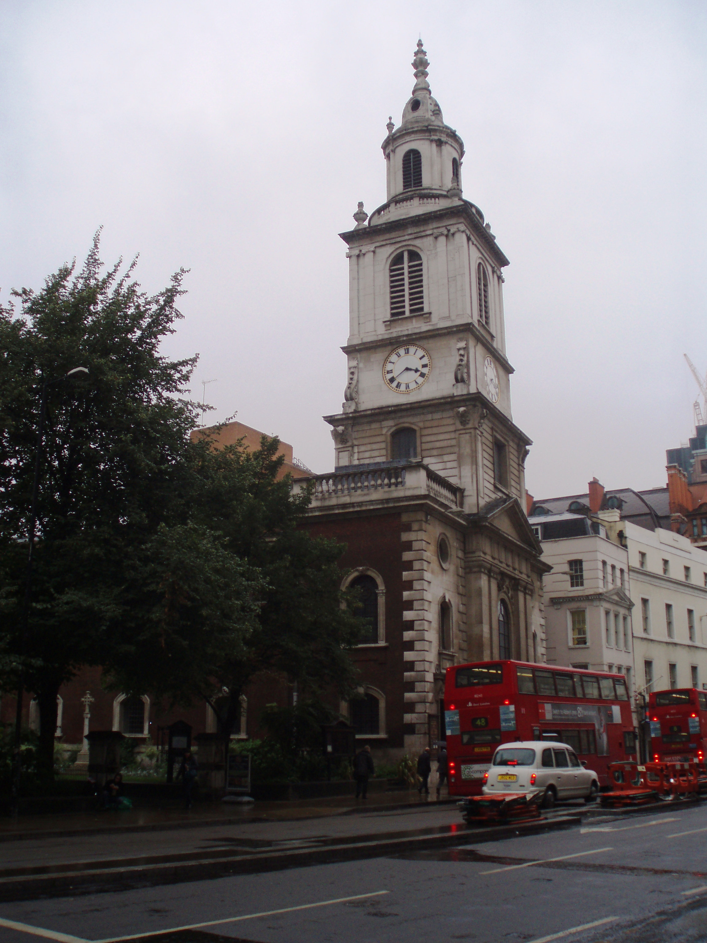 Photo taken by M.Eyre: 23/8/07